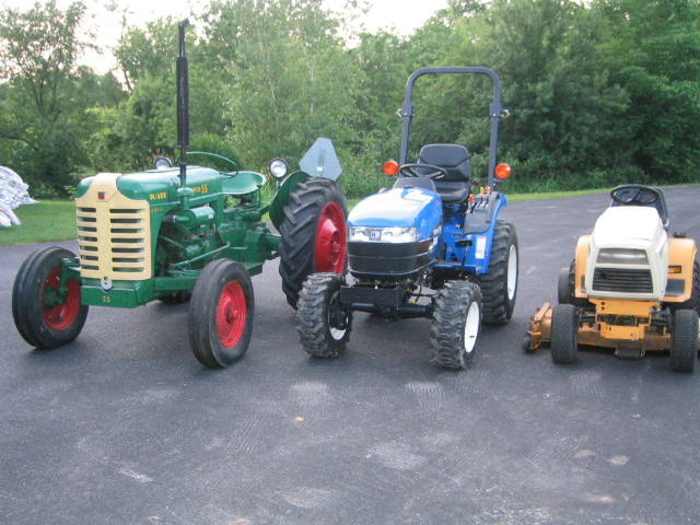 Three types of tractors illustrating the size differences between a small farm tractor, a CUT and a garden tractor. From left to right: 1956 Oliver Utility "agricultural tractor", or "farm tractor" (40 hp), 2004 New Holland TC24D "compact utility tractor" (CUT, 24 hp/18 kW, diesel), 1993 Cub Cadet "garden tractor". The New Holland Compact Utility Tractor is a fairly small tractor but has features common to both antique and modern agricultural tractors. The Garden Tractor shares the same shape of the larger tractors but lacks the features and abilities.